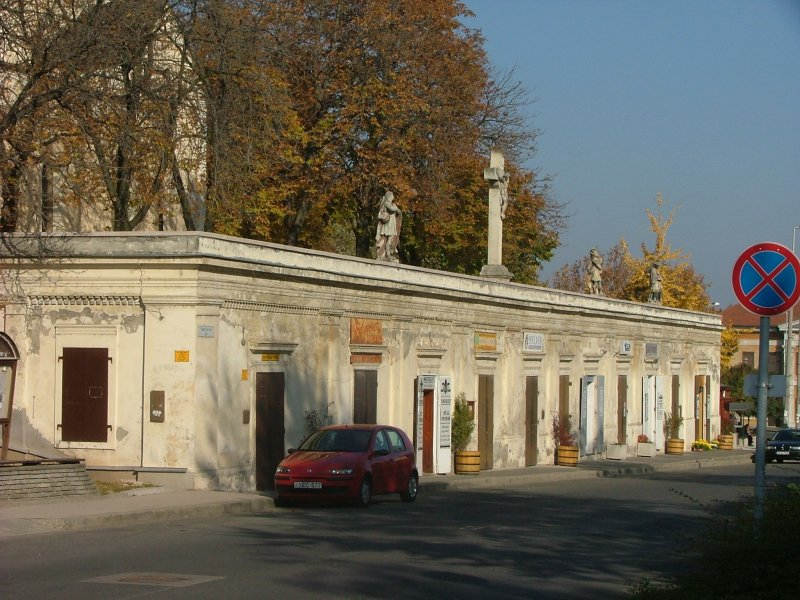 Author: Attila SZÉP Place: Paks, Hungary, Row of bazaars Date: 01. Nov 2005